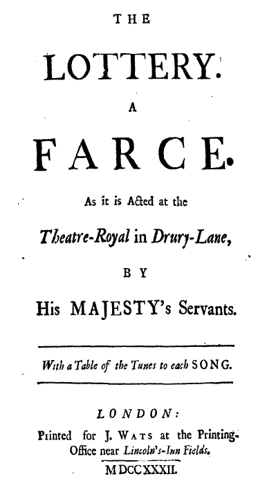 Fielding, Henry. The lottery. A farce. As it is acted at the Theatre-Royal in Drury-Lane, by His Majesty's Servants. With a table of the tunes to each song. London: Printed for J. Watts, 1732.